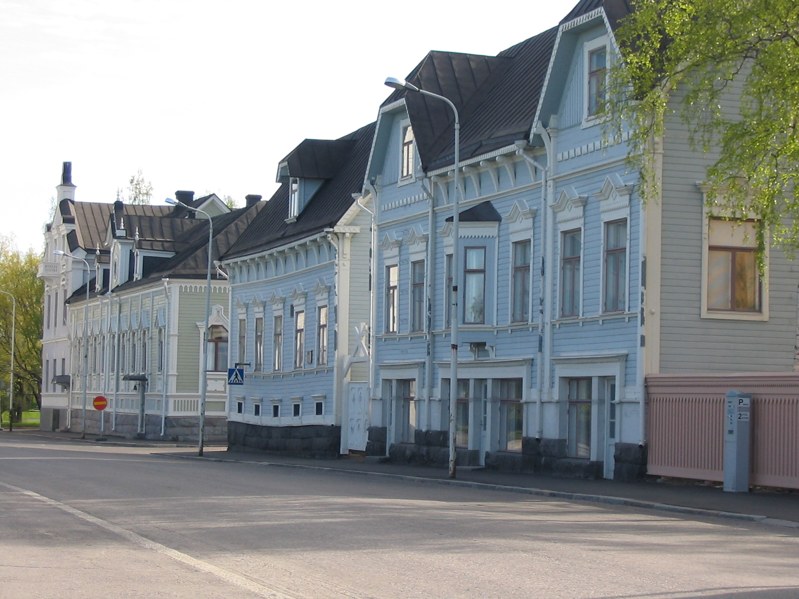 Old buildings on Rantakatu, Oulu, Finland.